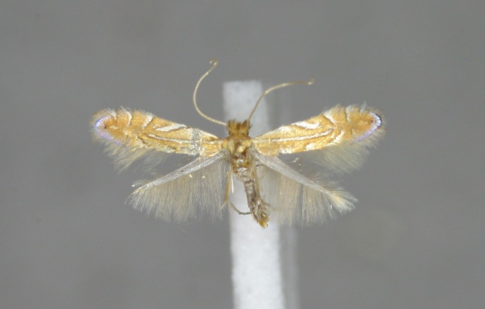 Phyllonorycter quercifoliella